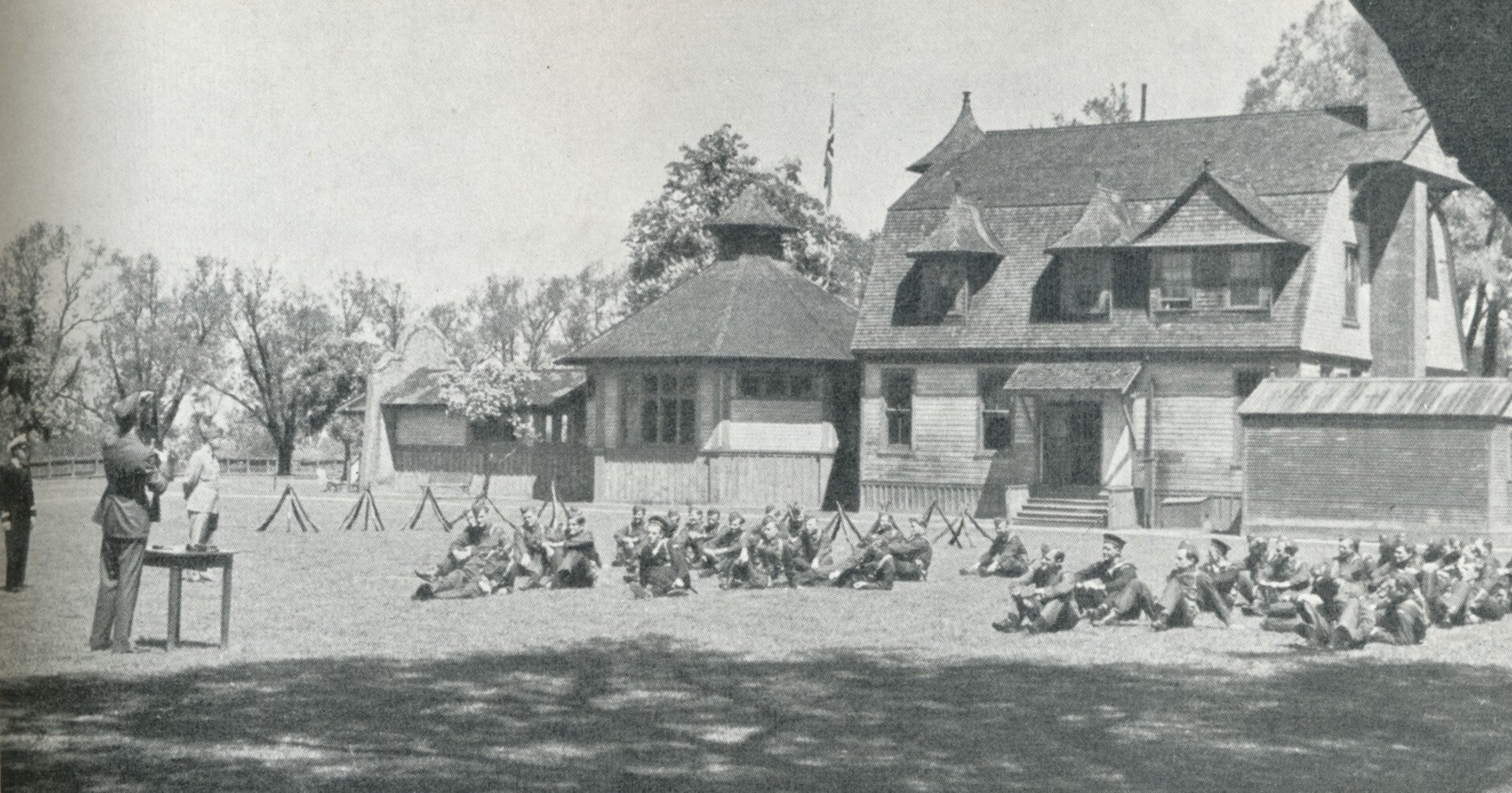 Lakeside Home on Centre Island, just south of where Camp Little Norway was being built, was an old children's hospital. In September 1940, two months before the opening of Little Norway, a recruit school for the Norwegian Air Forces was opened here. Toronto, Ontario, Canada.